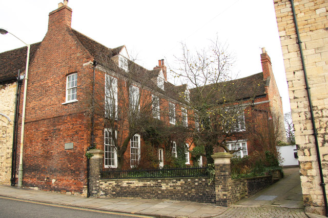 3 Pottergate